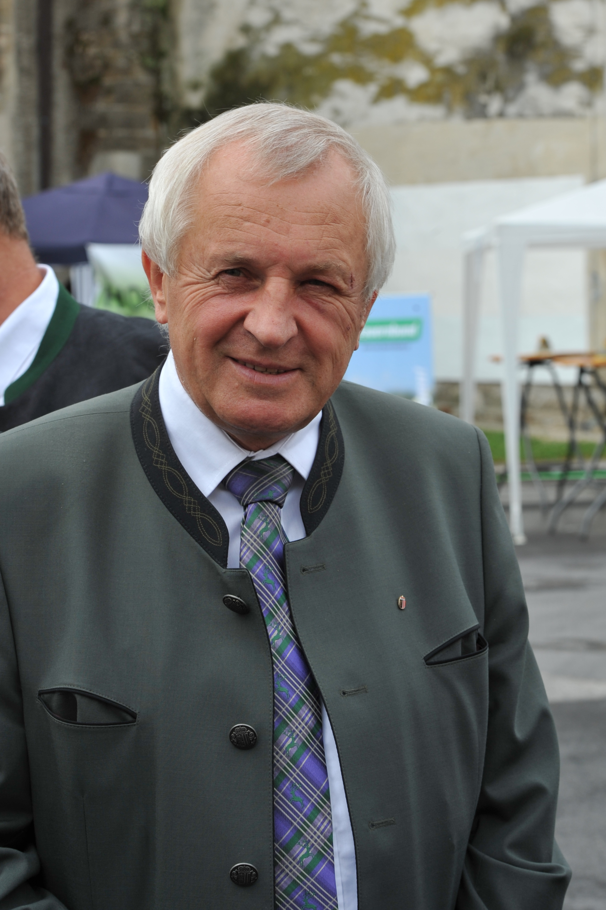 The making of this work was supported by Wikimedia Austria. For other files made with the support of Wikimedia Austria, please see the category Supported by Wikimedia Österreich. Franz Hiesl bei der Ortsbildmesse Perg 2012